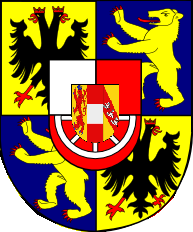 Coat of arms (shield only) of Ferdinand Maria Chotek, bishop of Tarnów, Poland (1831 - 1832), archbishop of Olomouc, Czech republic (1832 - 1836). A vectorized version of Shield of the coats of the Habsburg-Lorraine family. Right side the coat of arms of the village of Habsburg in Switzerland, in the middle the right-white-red coat of arms of Austria, on the right the coat of arms of Lorraine. Parts taken from